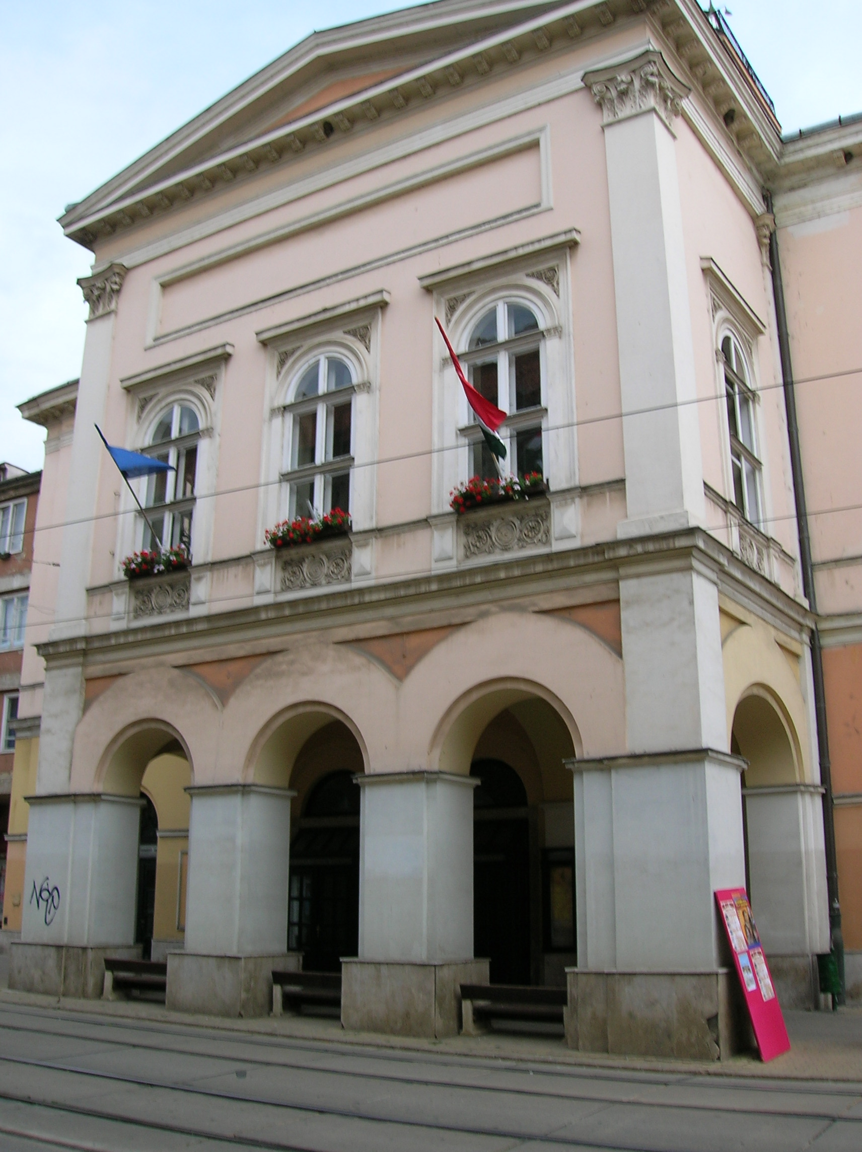 National Theatre of Miskolc, Hungary.